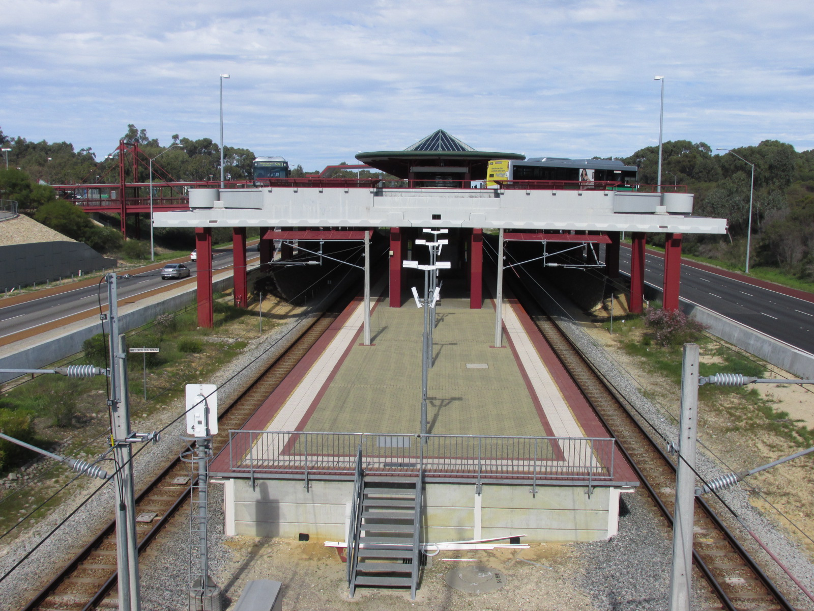 Whitfords railway station looking south from Whitfords Avenue, Perth, Western Australia